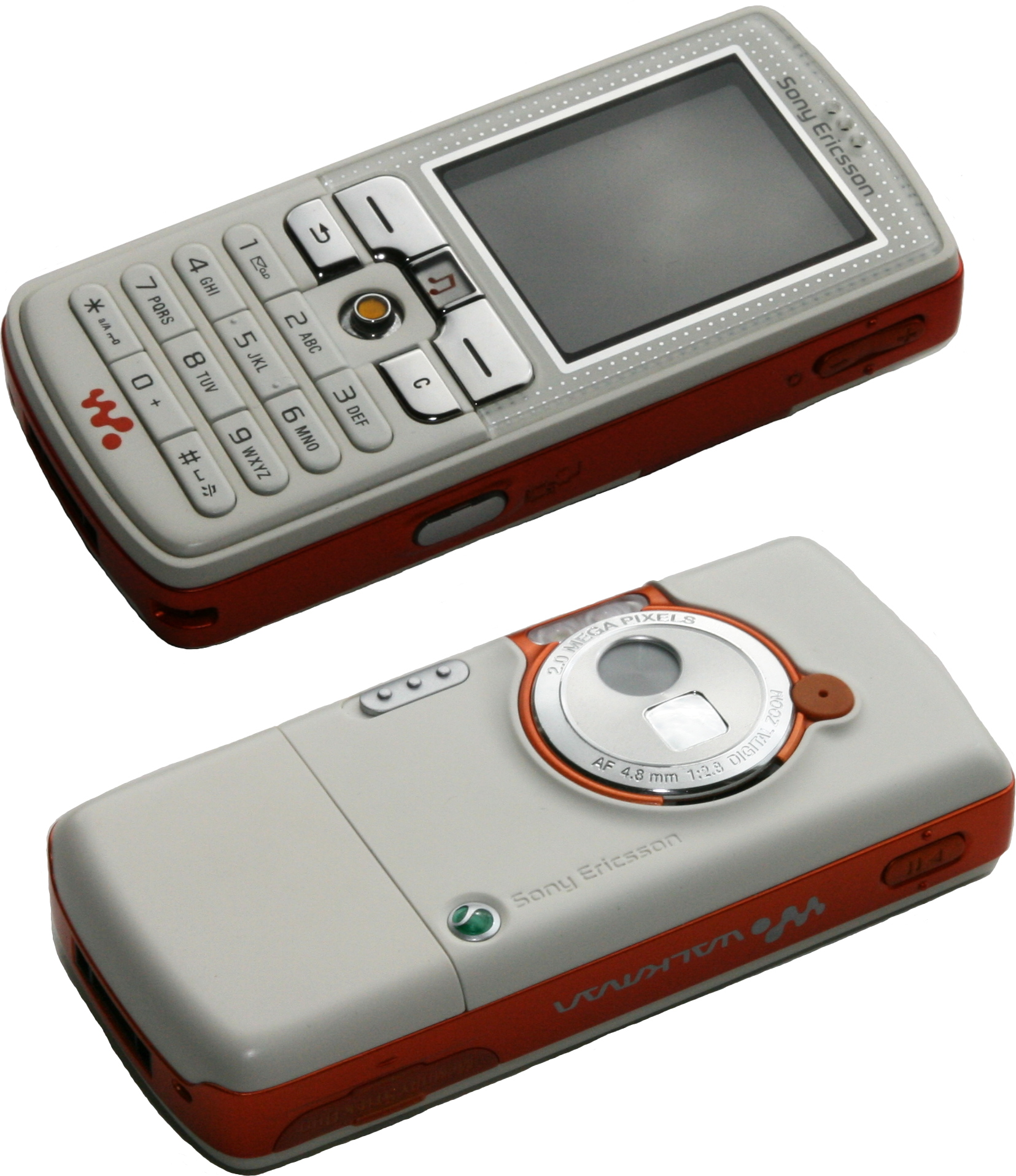 Front and back views of the Sony Ericsson W800 mobile phone in the color named Smooth White.